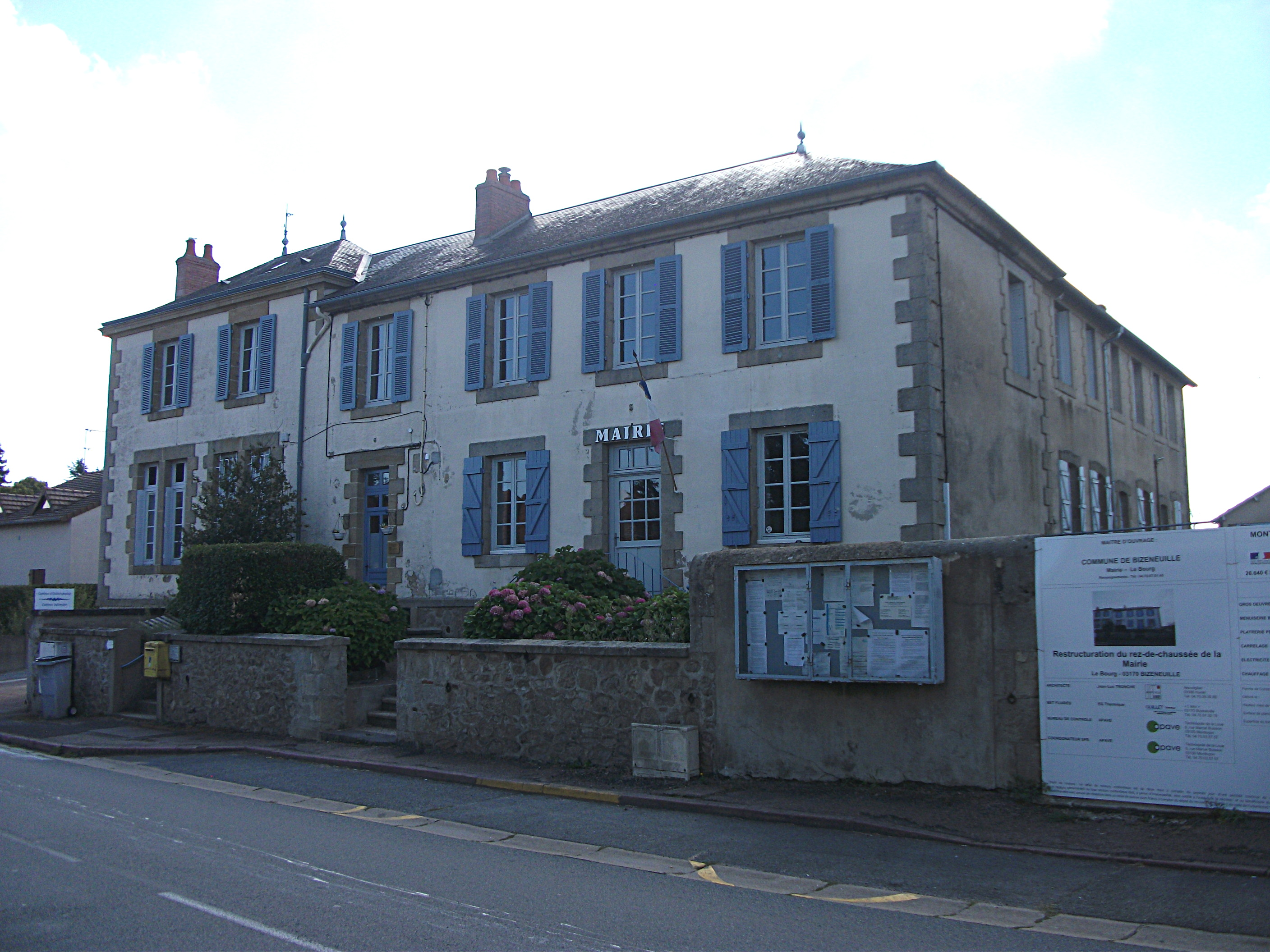 Town hall of Bizeneuille, Allier, Auvergne-Rhône-Alpes, France. [16699]